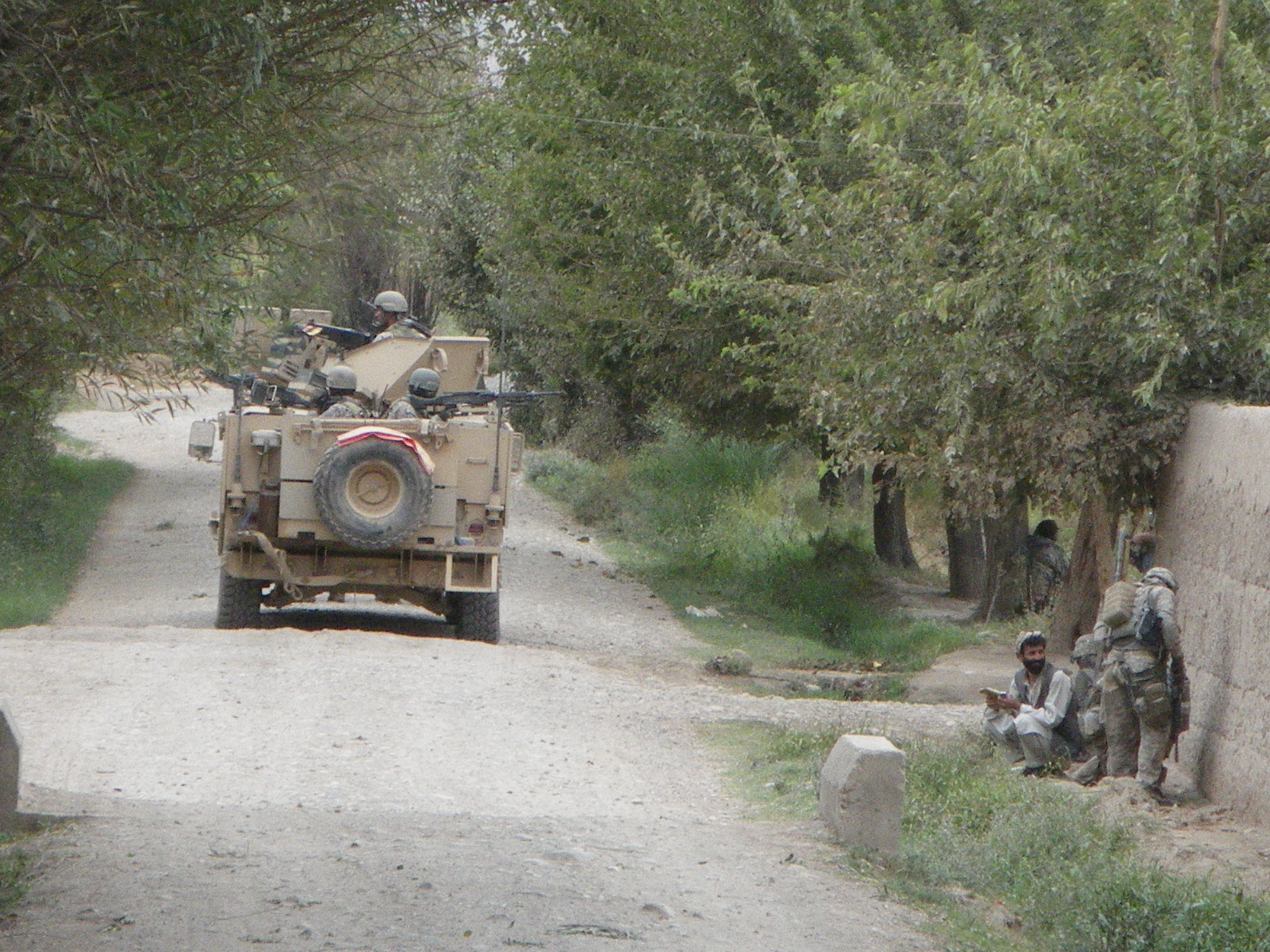 During the Battle of Shahabuddin, elements of 2nd Platoon, Blacksheep Company, 1-87th Infantry, 10th Mountain Division, maneuver on and engage Taliban positions.